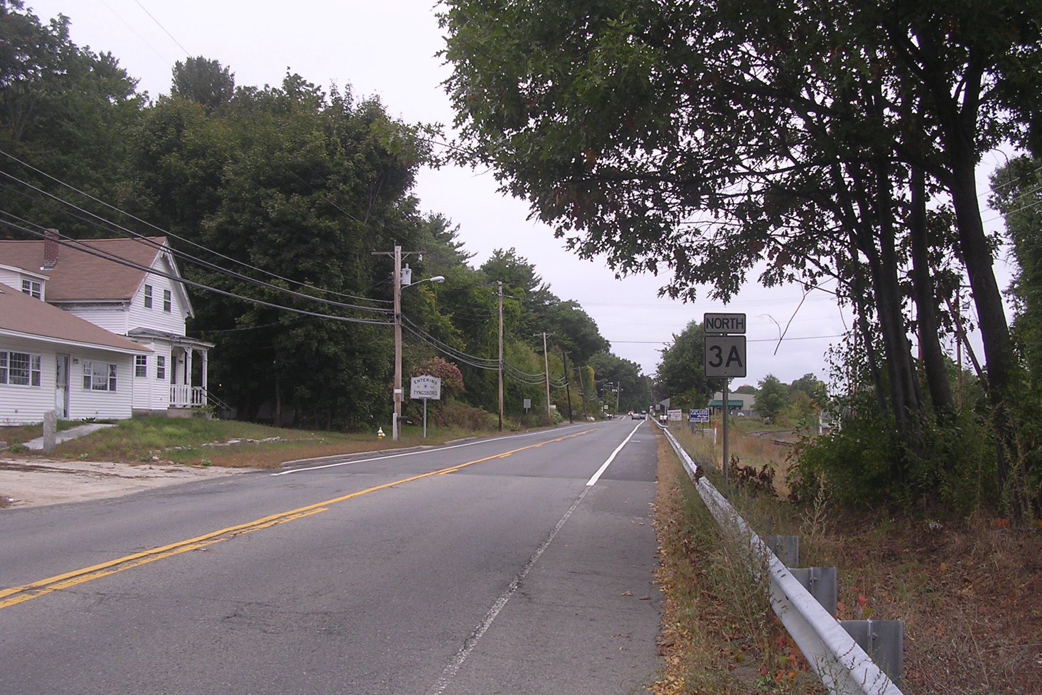 Northbound MA Route 3A entering Tyngsborough Massachusetts